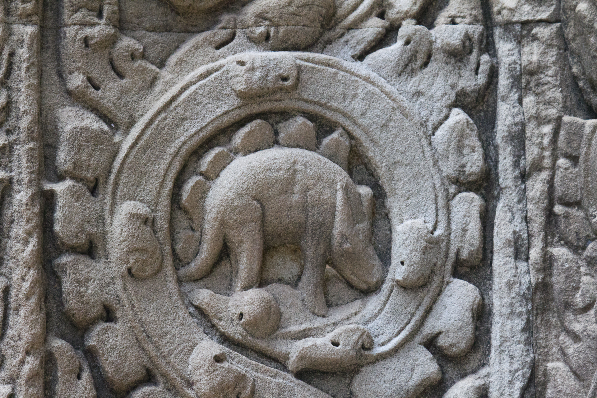 At Ta Prohm, near Angkor Wat and built by the epic builder king Jayavarman VII in the late 1100s, a small carving on a crumbling temple wall seems to show a dinosaur - a stegosaurus, to be exact. The hand-sized carving can be found in a quiet corner of the complex, a stone temple engulfed in jungle vegetation where the roots of centuries-old banyan trees snake through broken walls. Further reading: paleo.cc/paluxy/stegosaur-claim.htm